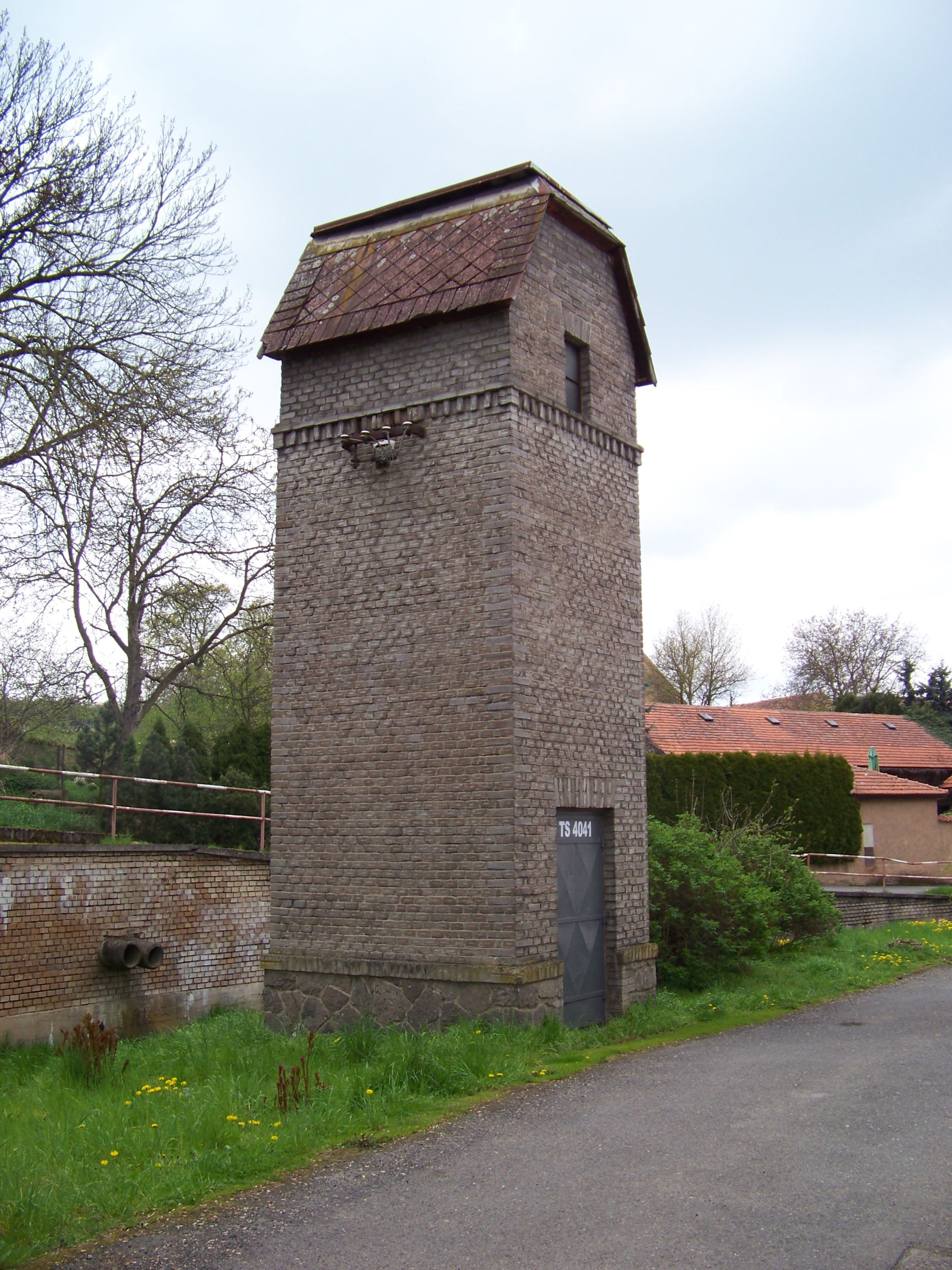 Prague-Nedvězí, Czech Republic. Hájová and Rokytná street, a distribution electrical station.